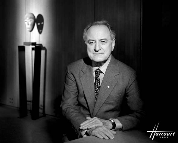 Pierre Bergé photographed by Studio Harcourt Paris